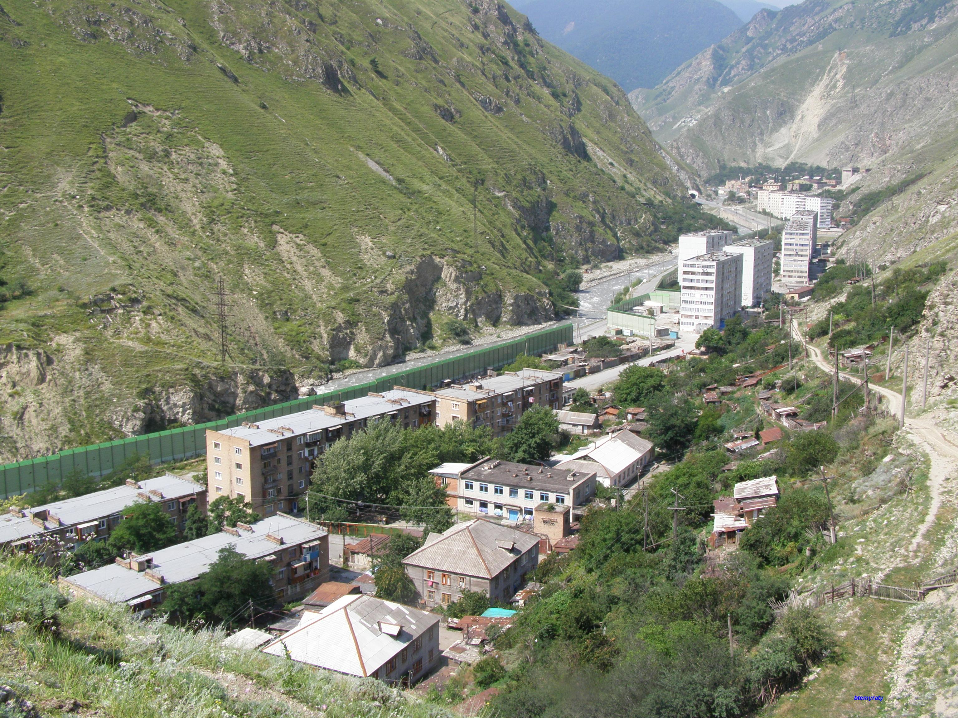 Mizur, North Ossetia - Alania Republic, Russia Ирон: Мызуры посёлок, Цæгат Ирыстон